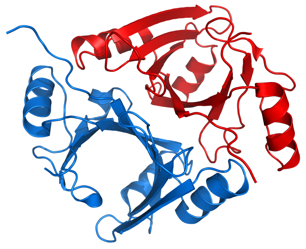 Ribbon diagram of a methylmalonyl-CoA epimerase dimer from Propionibacterium shermanii. Created using PyMOL ( and GIMP.